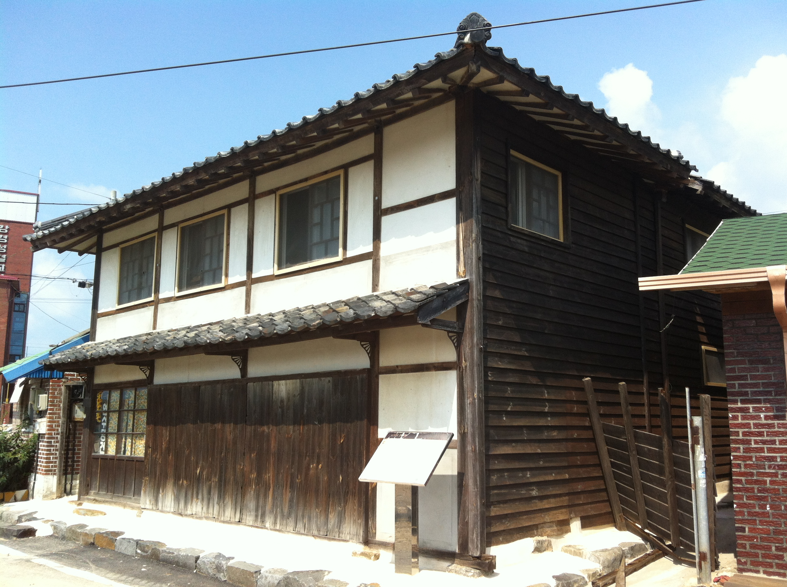 Ganggyeong Yeonsudang Geonjae Yakbang at Ganggyeong, Gongju, Chungcheongnam-do, Korea